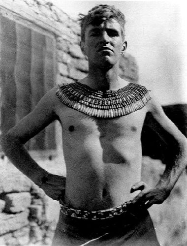 John Devitt Stringfellow Pendlebury (12 October 1904 – 22 May 1941) was a British archaeologist who worked for British intelligence during World War II. He was killed during the Battle of Crete.